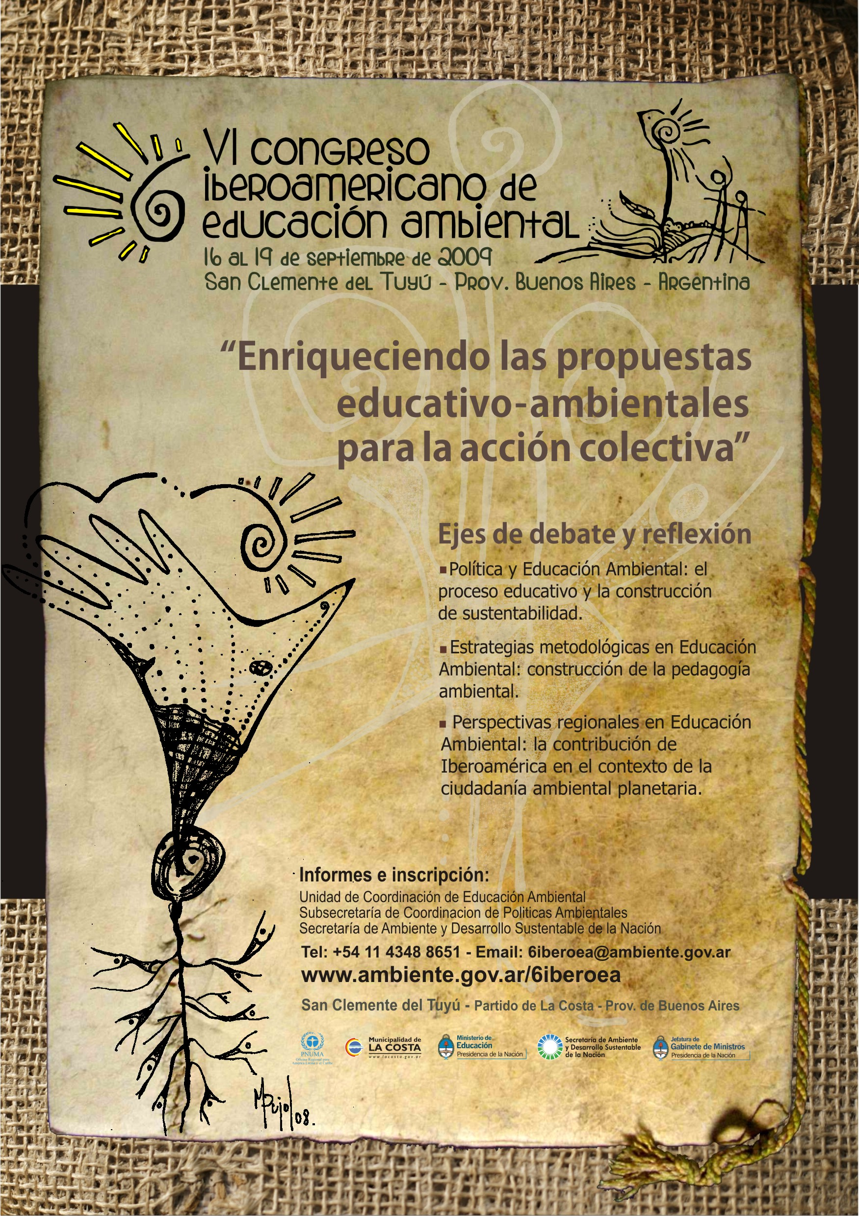 From 16 to 19 September 2009, will be held in the City of San Clemente del Tuyú (Partido de la Costa), Provincia de Buenos Aires, VI Latin American Congress on Environmental Education. Under the theme "Enriching the educational and environmental proposals for the collective action, "Congress will have two objectives: Promote environmental education becomes a policy State to strengthen governance in the construction of territories sustainable livelihood. Help develop the field of environmental education from the contributions of educators from different perspectives and realities. The meeting will take place in different spaces, through conferences central, round tables and workshops. Along the same expected discuss and provide input on three central points: Policy and Environmental Education: The educational process and the construction of sustainability. Methodological Strategies in Environmental Education: Building environmental pedagogy. Regional Perspectives on Environmental Education: The contribution of Latin America in the context of global environmental citizenship. We look forward to the participation of environmental educators from various areas: teachers, students, researchers, officials, members of CSOs, indigenous peoples, youth, entrepreneurs, professionals and all those that daily work involved in building the field Latin American environmental education. PARTICIPATION IN THE CONFERENCE: The modality of participation in the Congress is as an assistant and / or presenter (oral or poster). ENROLLMENT Registration will be available online from March 2, 2009. CONTACT: Coordination Unit for Environmental Education Undersecretary of Environmental Policy Coordination Ministry of Environment and Sustainable Development of the Nation Web: Mail: Tel: 54 11 4348 8651 Mail: Tel: 54 11 4348 8651